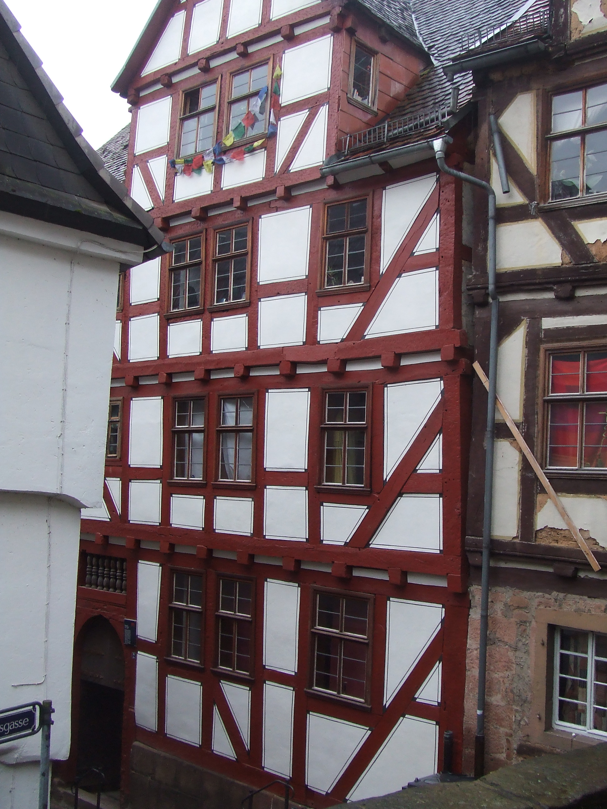 Lomonosov's house in Marburg, Wendelgasse 2. In this house he lived as a student and married later the daughter of the owner. Until today students live in the house and is it very close to the condition of the time when Lomonosov lived in (even the interior). Photo: Christos Vittoratos